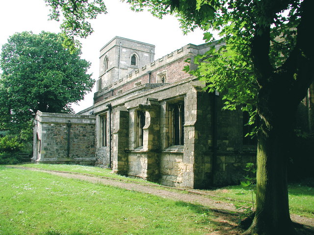 St. Nicholas Church, Keyingham, East Riding of Yorkshire, England.